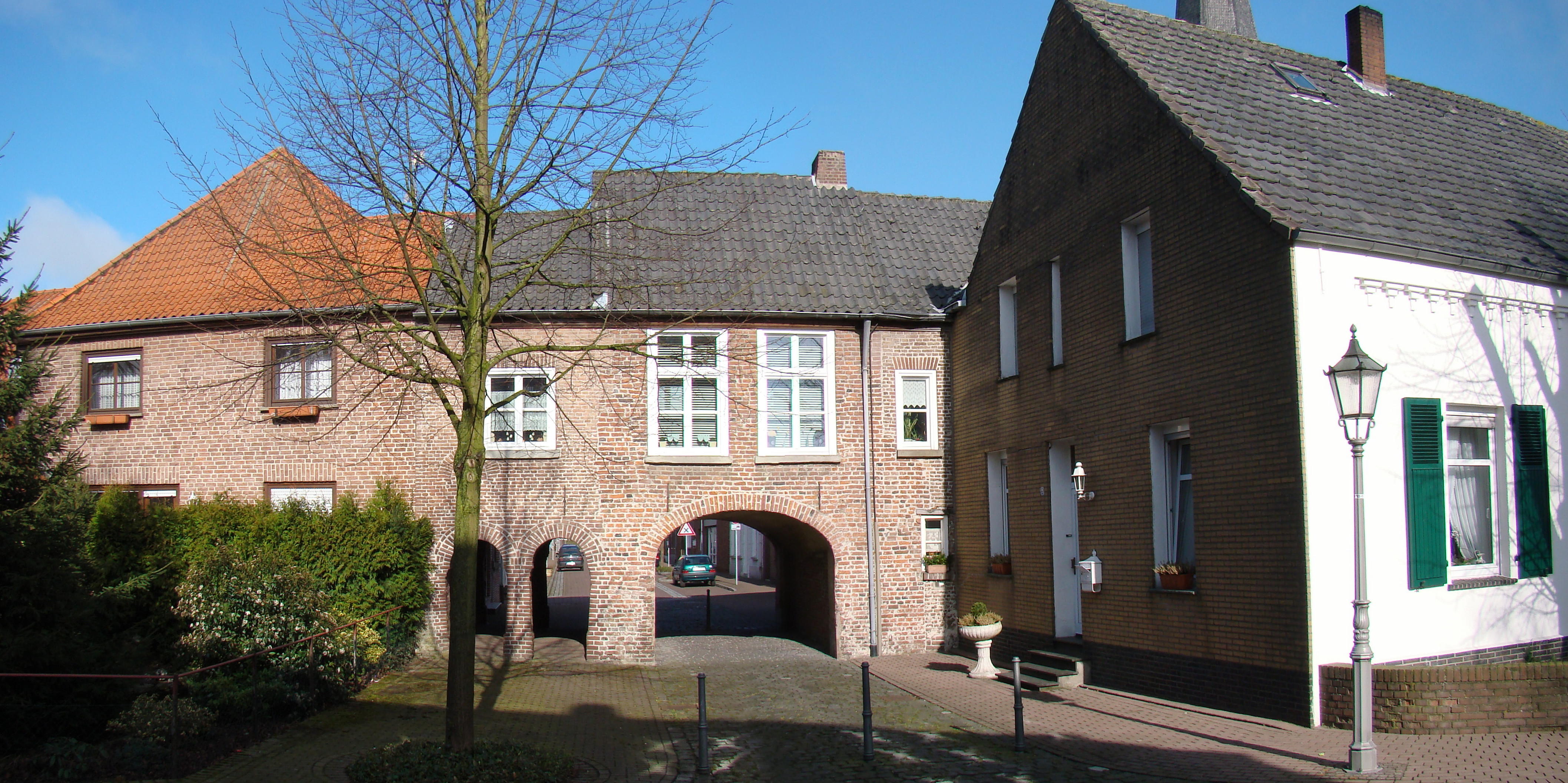 Germany, Kleve-Griethausen, Oberstraße